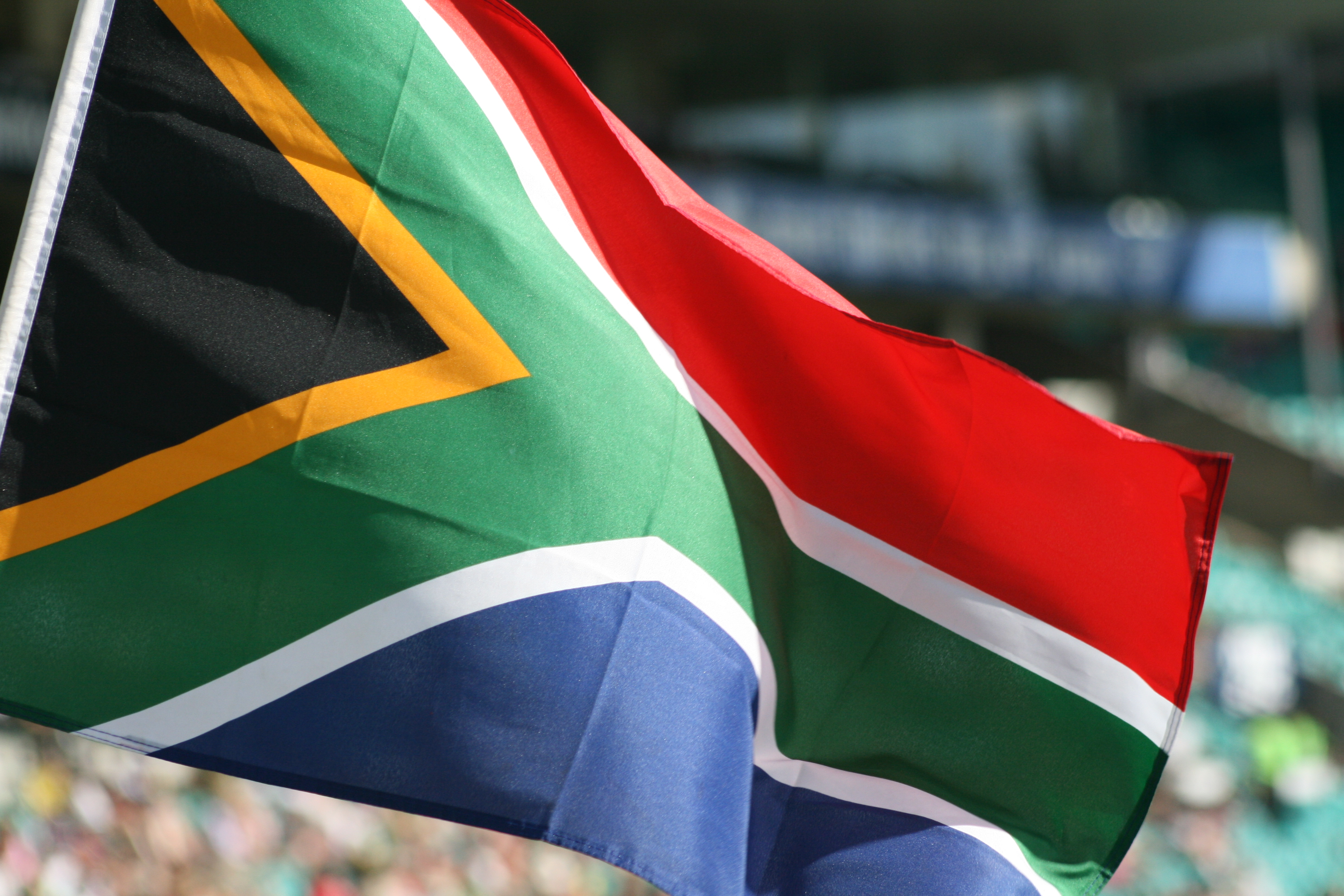 A cricket shot from Privatemusings, taken at the third day of the SCG Test between Australia and South Africa.